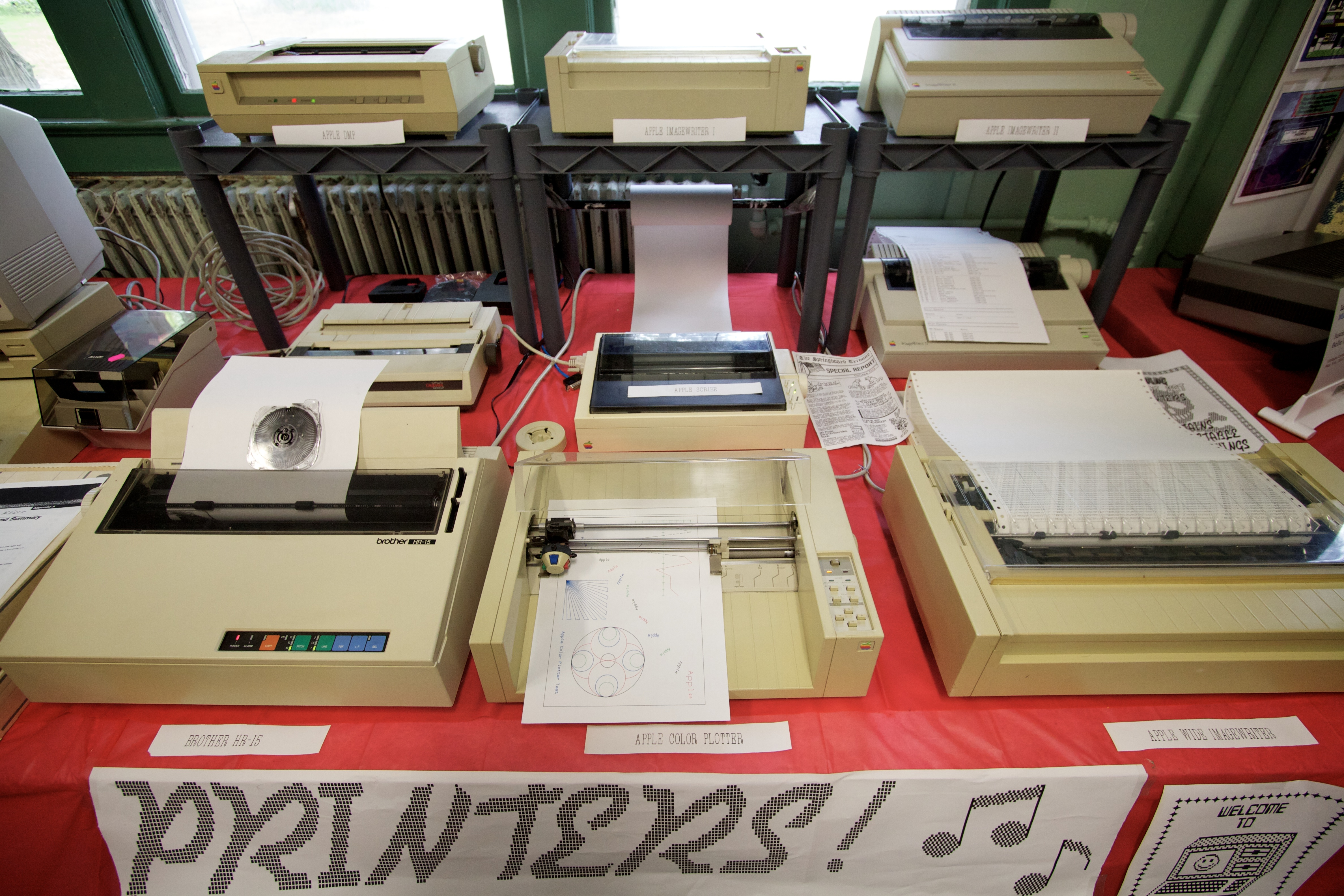 On shelf, L-R: Apple Dot Matrix Printer, Apple Imagewriter I, Apple Imagewriter II Background, L-R: Okidata 120, Apple Scribe, Apple Imagewriter II Foreground, L-R: Brother HR-15, Apple Color Plotter, Apple Imagewriter (15" wide carriage variant)